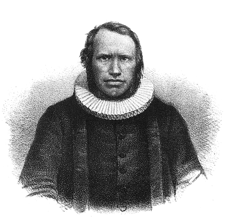 Portrait of the Norwegian missionary Hans Paludan Smith Schreuder (1817–1882)